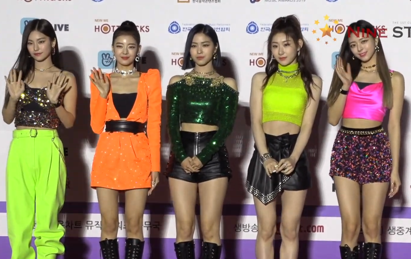 Itzy at Gaon Music Awards red carpet on January 8, 2020.